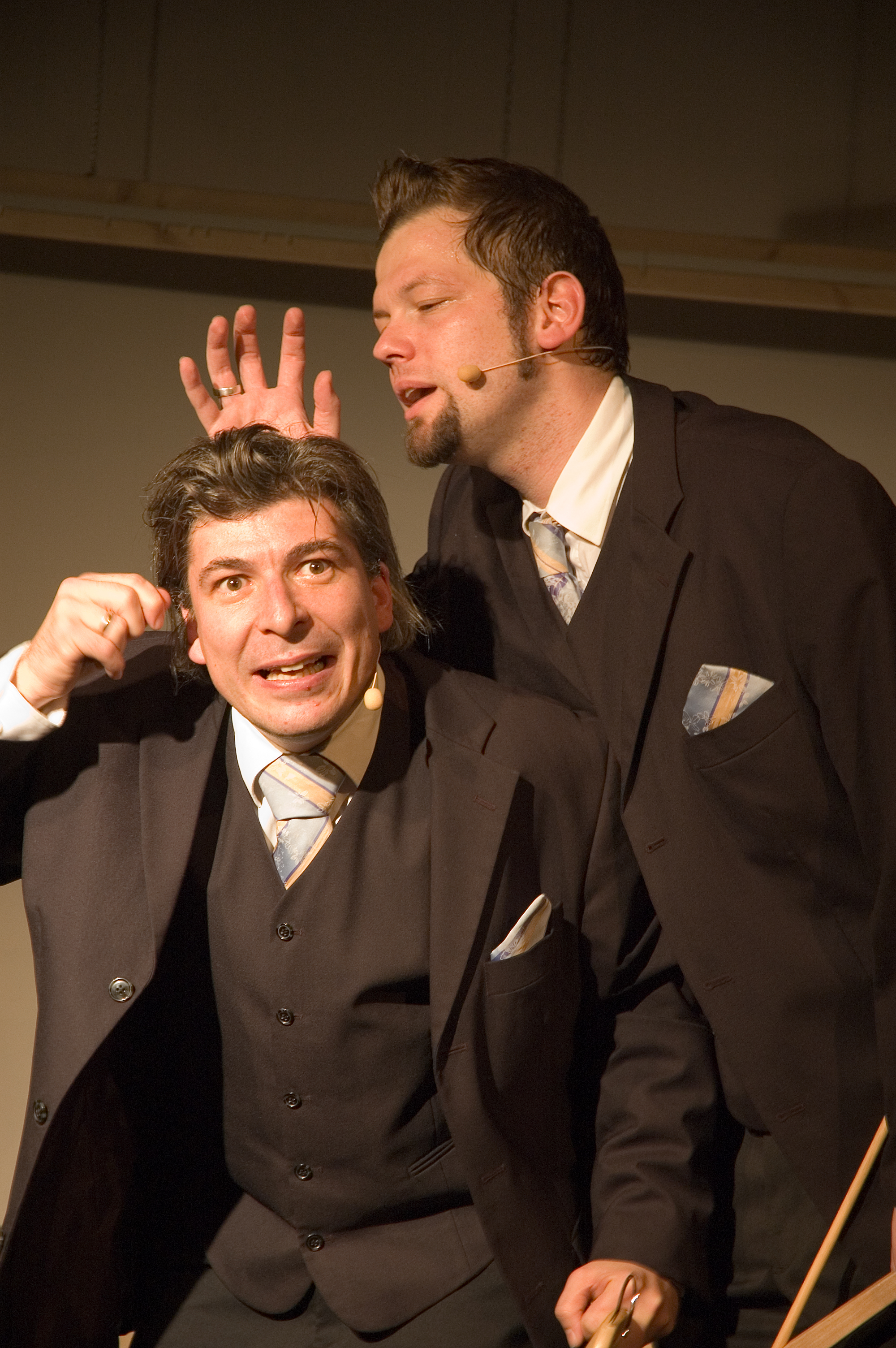 ONKeL fISCH, a German Comedy duo live during their show "ONKeL fISCH auffem Sofa" in Meerbusch